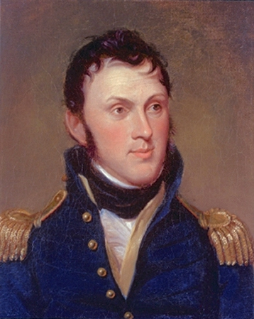 Representation of full portrait (1819) by Charles Willson Peale (1741-1827) of Major Stephen Harriman Long (1784-1864), US topographical engineer, explorer and inventor. Painting owned/administered by US Dept. of the Interior since 1854 and located at Independence National Historical Park.